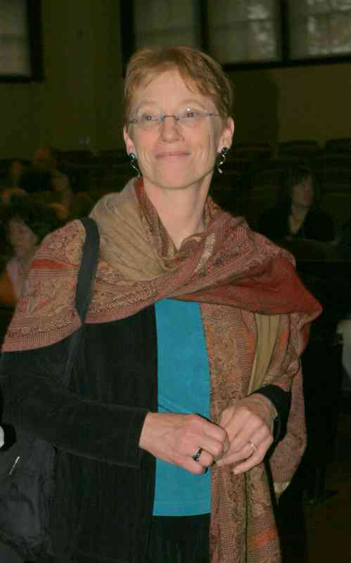 A photo of Patricia Aufderheide at the Berkman Center 2006 Beyond Broadcast gathering.